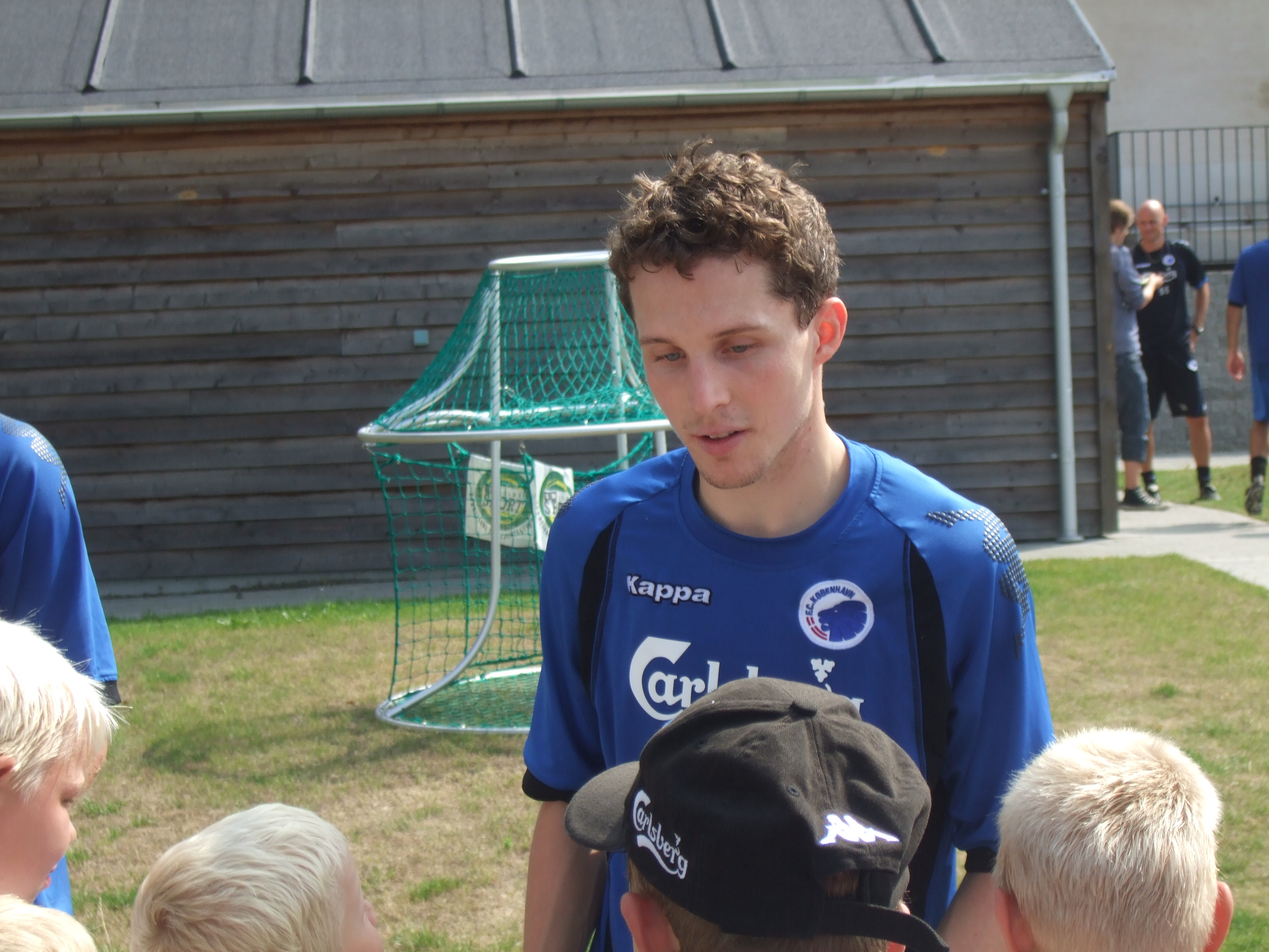 F.C. København striker Morten Nordstrand signing autographs after practice August 7th 2008. Picture is taken at the FCK training grounds at Peter Bangs Vej.